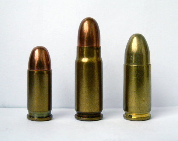 cartridges: 7.65 mm Browning (aka .32 ACP), 7.62mm Tokarev, 9mm Luger (aka 9mm NATO)